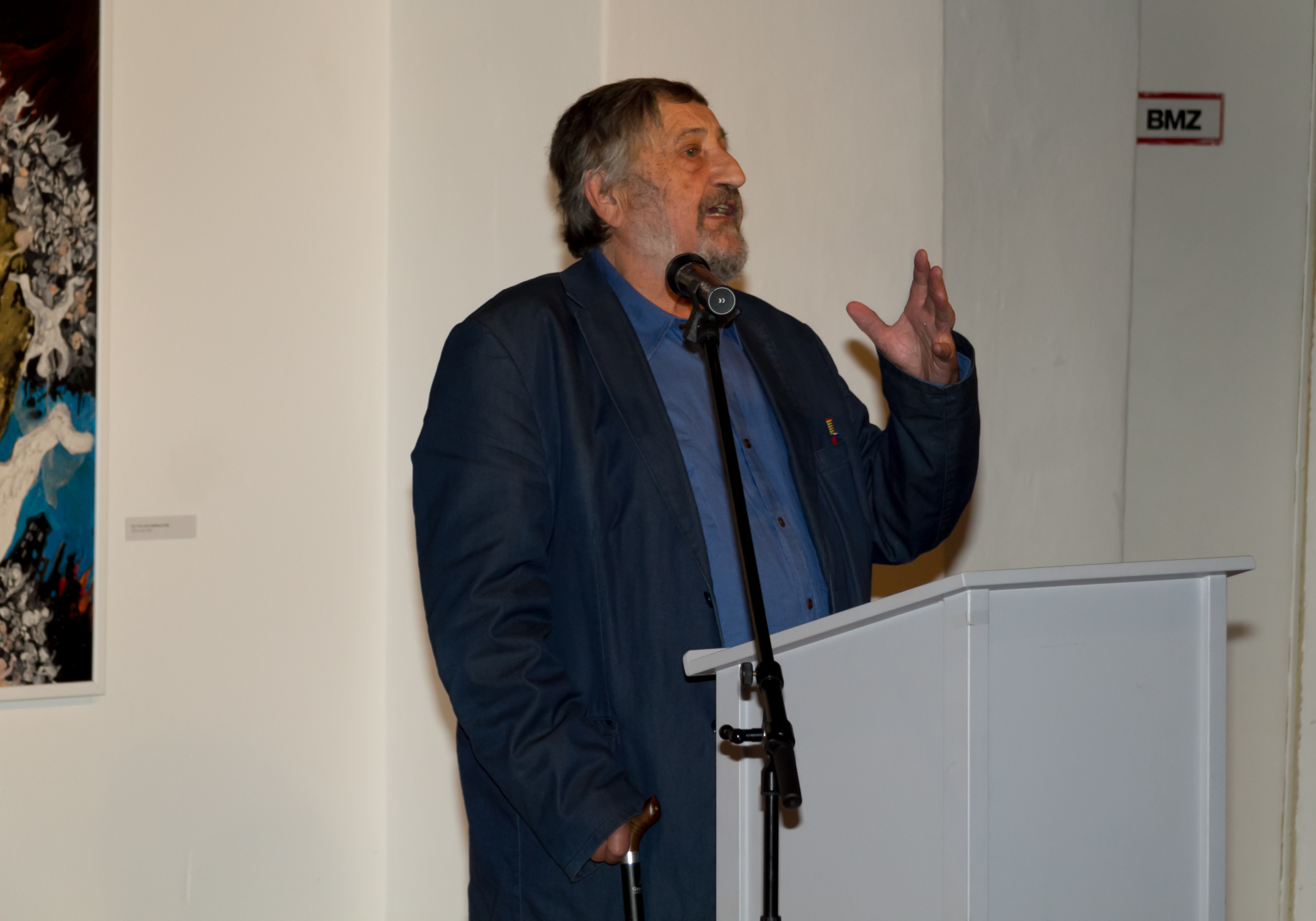 Vernissage to the 80th birthday of the painter Guido Zingerl in the Museum Gallery in Fürstenfeldbruck. Guido Zingerl during his speech of thanks.